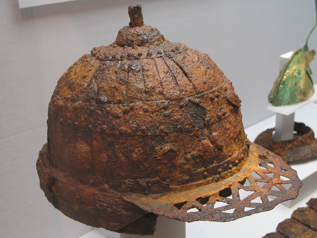 Rusted iron helmet from Gaya, 5-6th century.